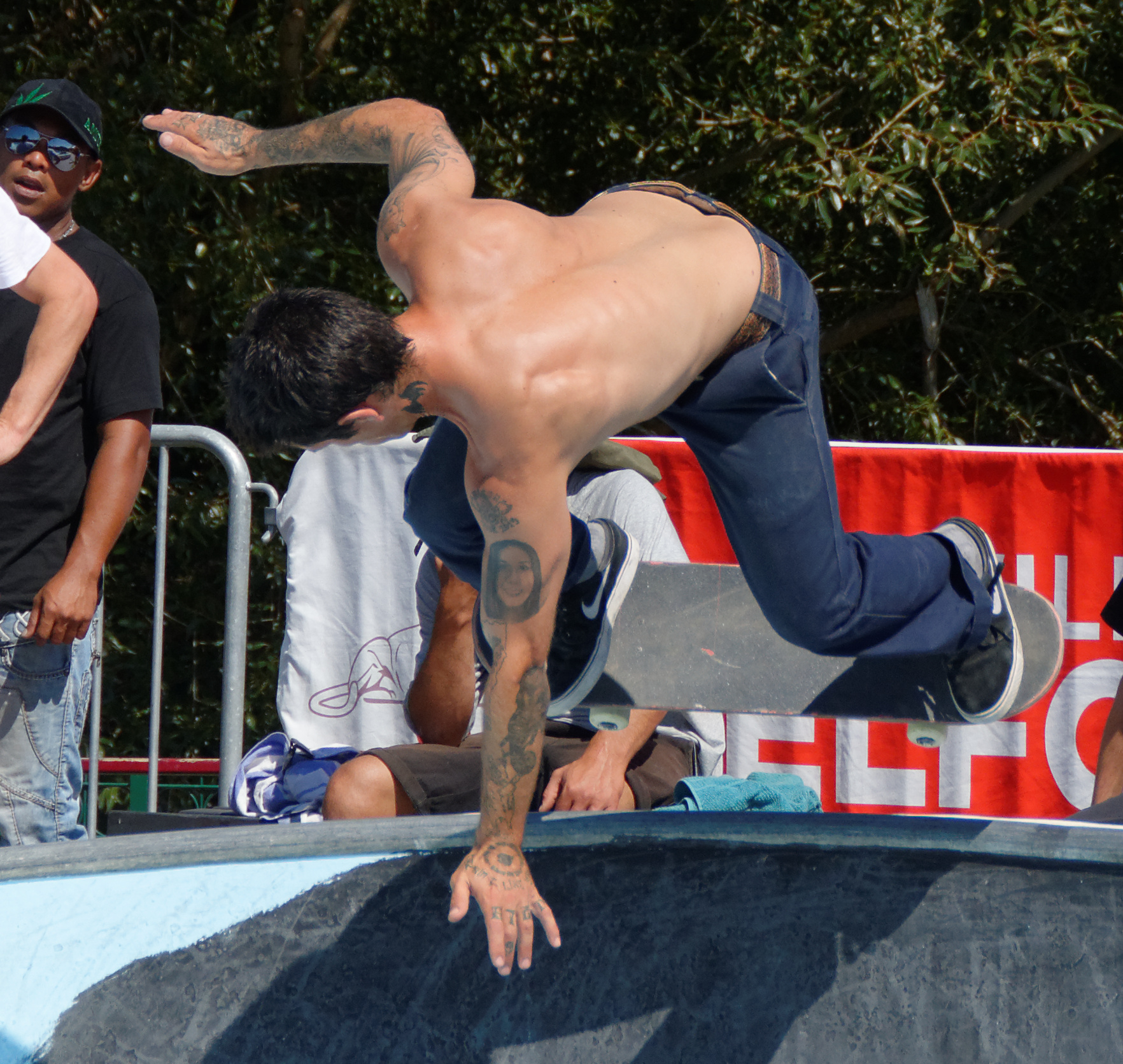 Personality rights warningAlthough this work is freely licensed or in the public domain, the person(s) shown may have rights that legally restrict certain re-uses unless those depicted consent to such uses. In these cases, a model release or other evidence of consent could protect you from infringement claims.